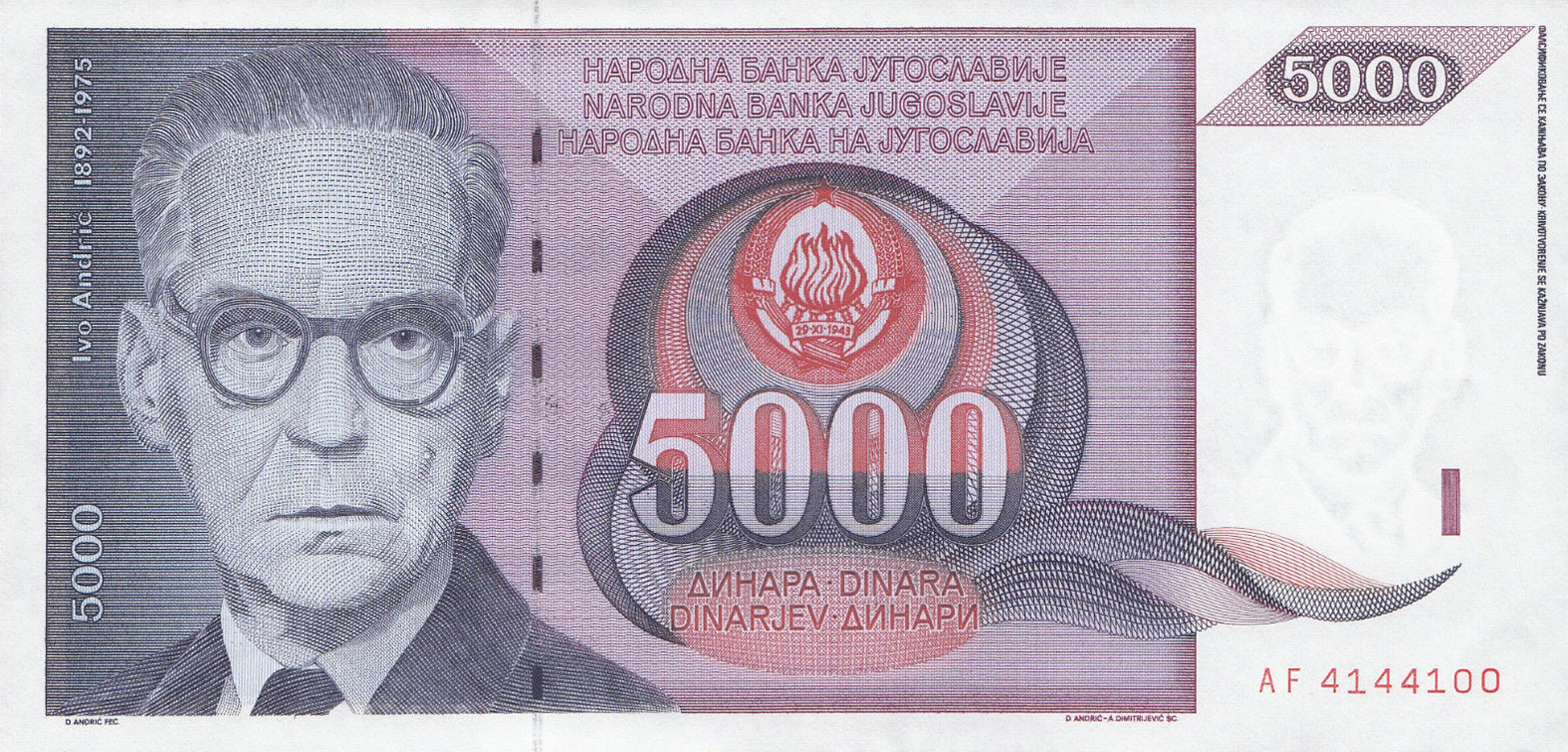 5000 Yugoslav dinars (1991)